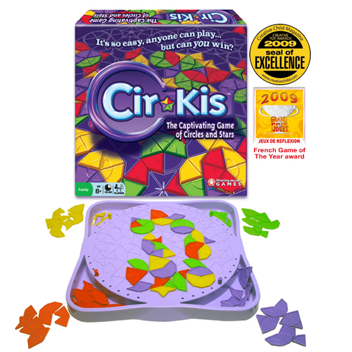 We designed the product and took the picture here at Winning Moves. This is our own work.